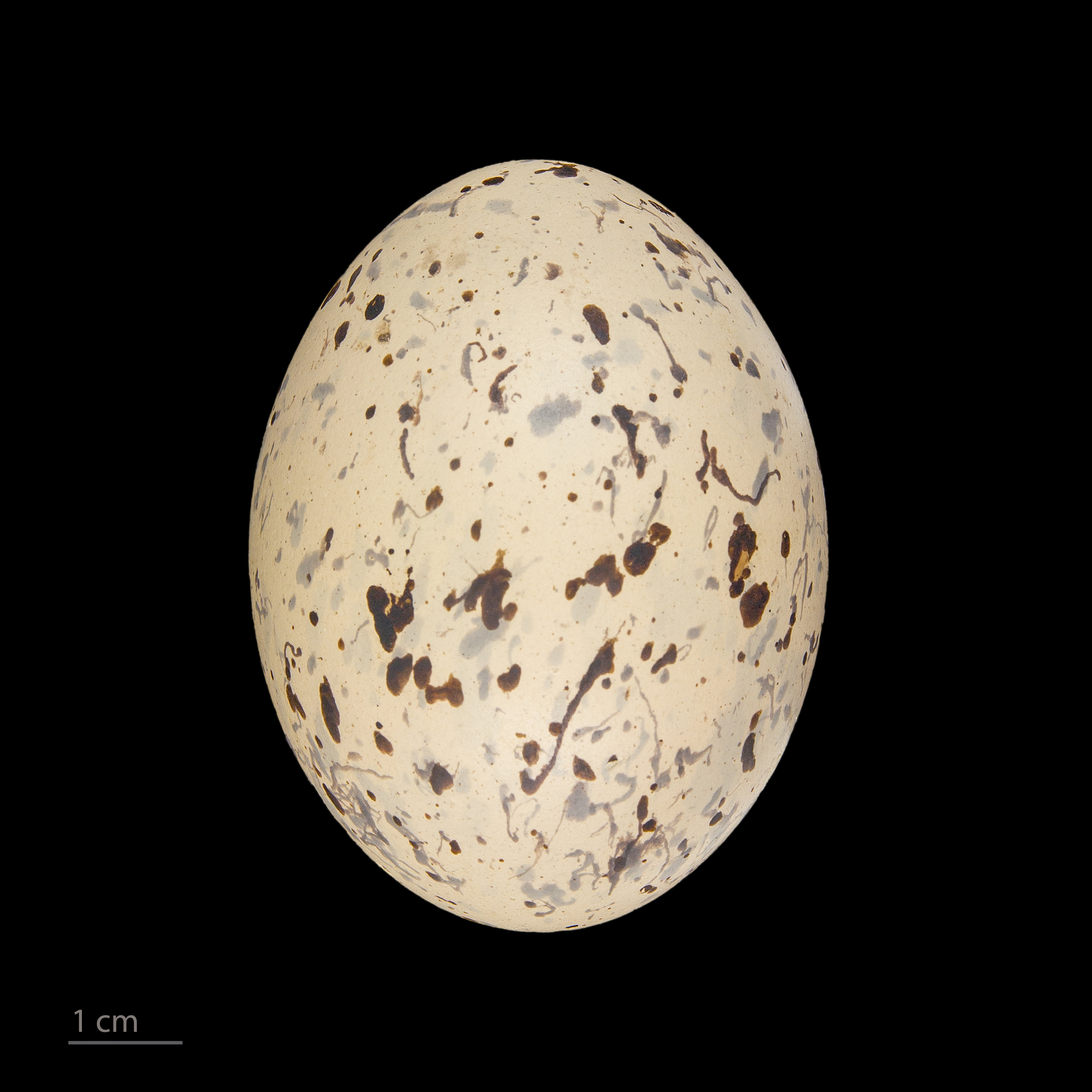 Egg of kagu Collection of Jacques Perrin de Brichambaut.